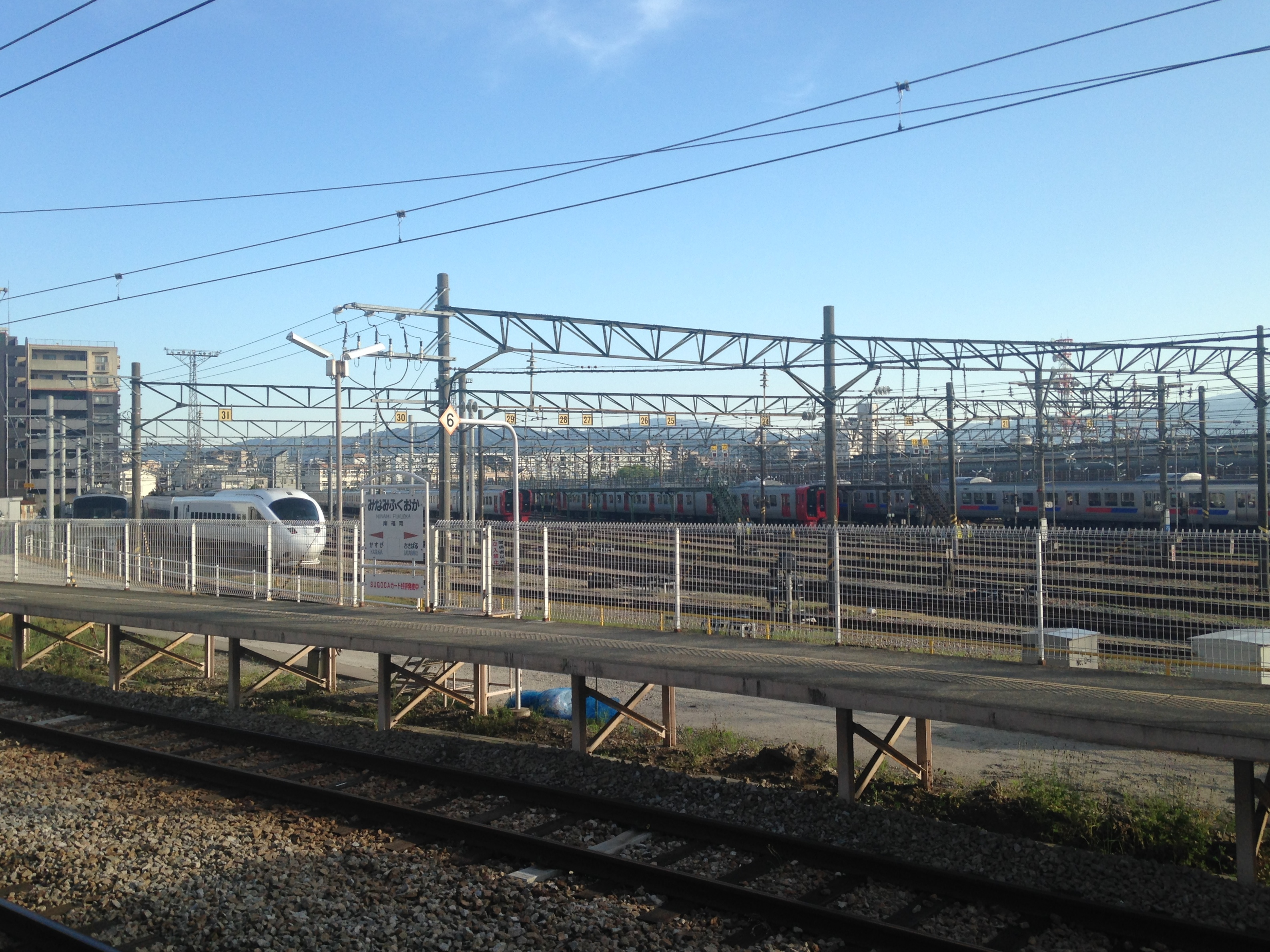 JR Kyushu Minami-Fukuoka Depot seen from Minami-Fukuoka Station